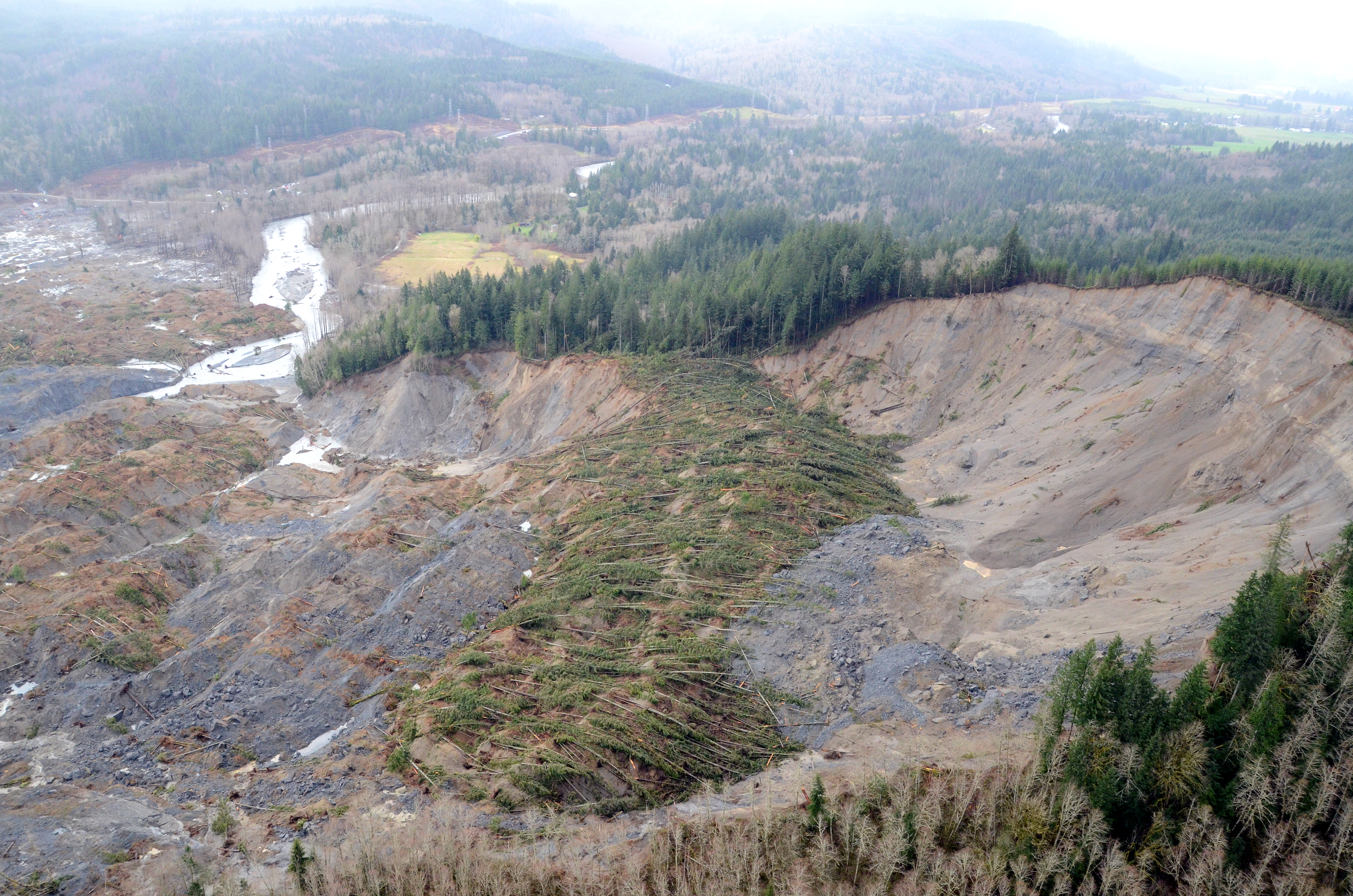 A view from a Washington Army National Guard helicopter shows trees that were at the very top of the hill when the mudslide occurred now lie across the slide's width like a woven belt. The National Guard has been helping the community with search and recovery efforts since they were activated Tuesday.